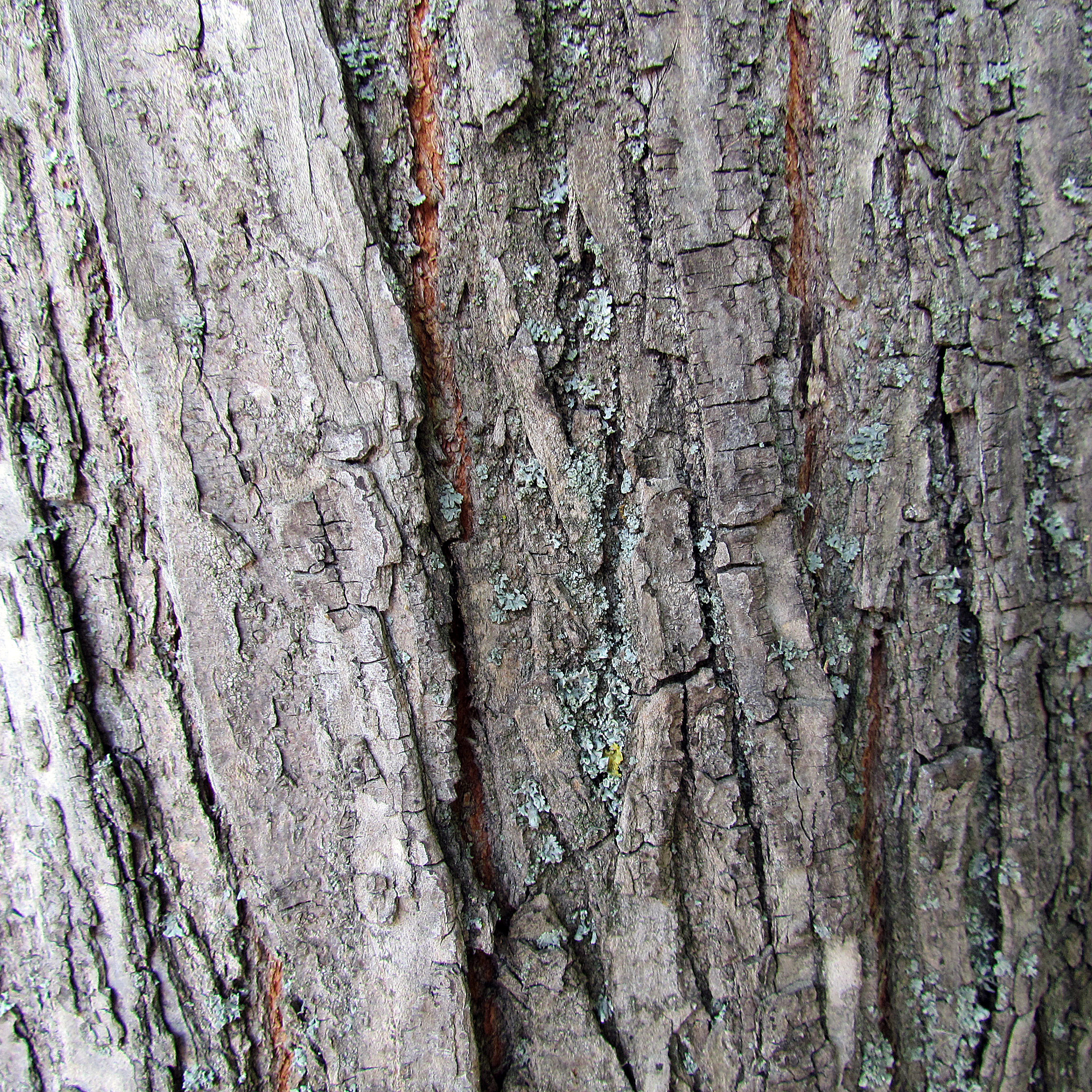 Ulmus laevis bark (Ada Ciganlija)